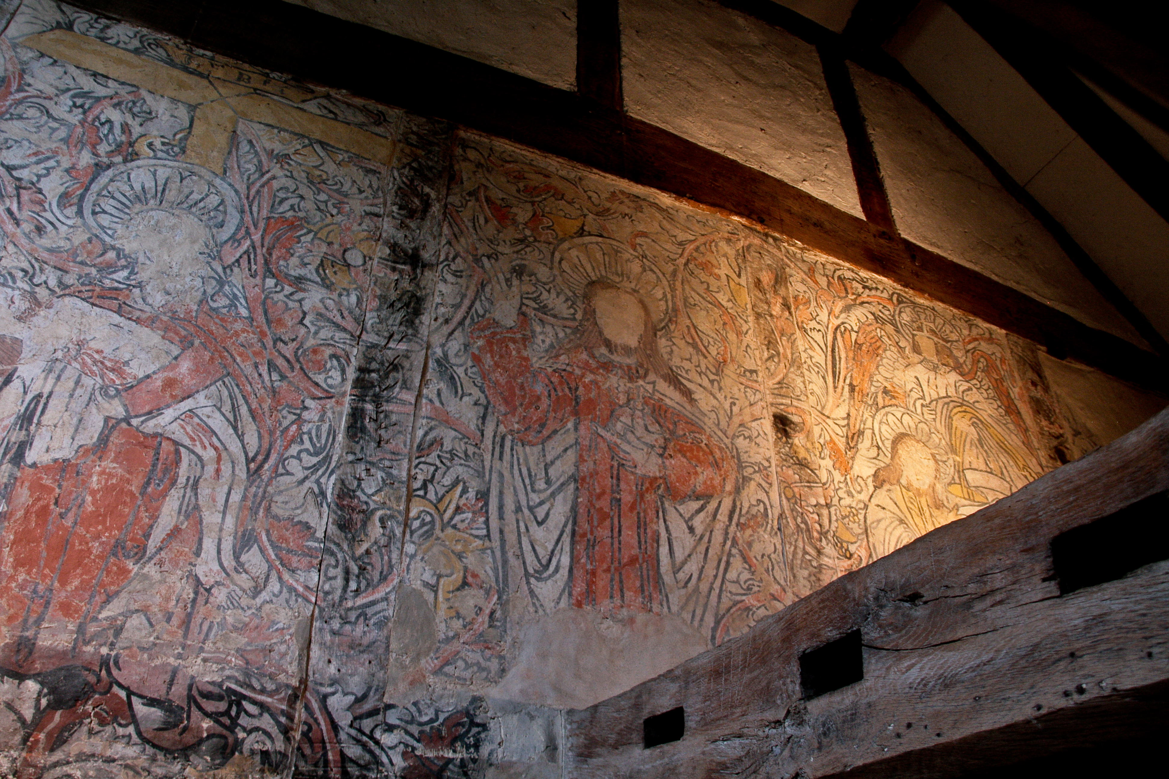 Preserved wall paintings (c.1529) at 130-136, Piccotts End, Hemel Hempstead, England, UK Wikidata has entry Q17528869 with data related to this item.